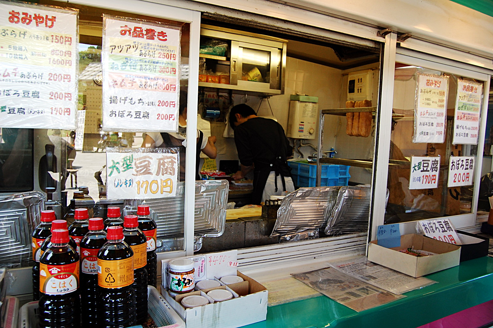 Aburaage Shop "Agedokoro Satō" at Michinoeki Route 290 Tochio, Nagaoka, Niigata Prefecture, Japan